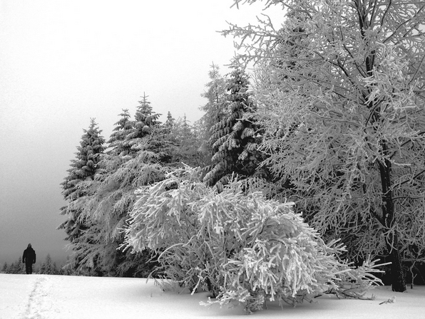 Winter landscape